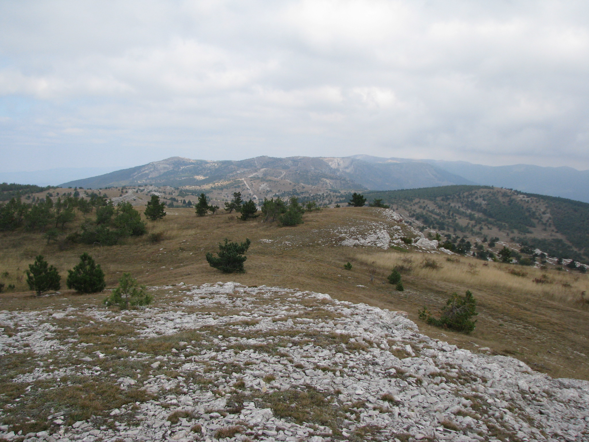 Yalta yayla (Crimean mountains)